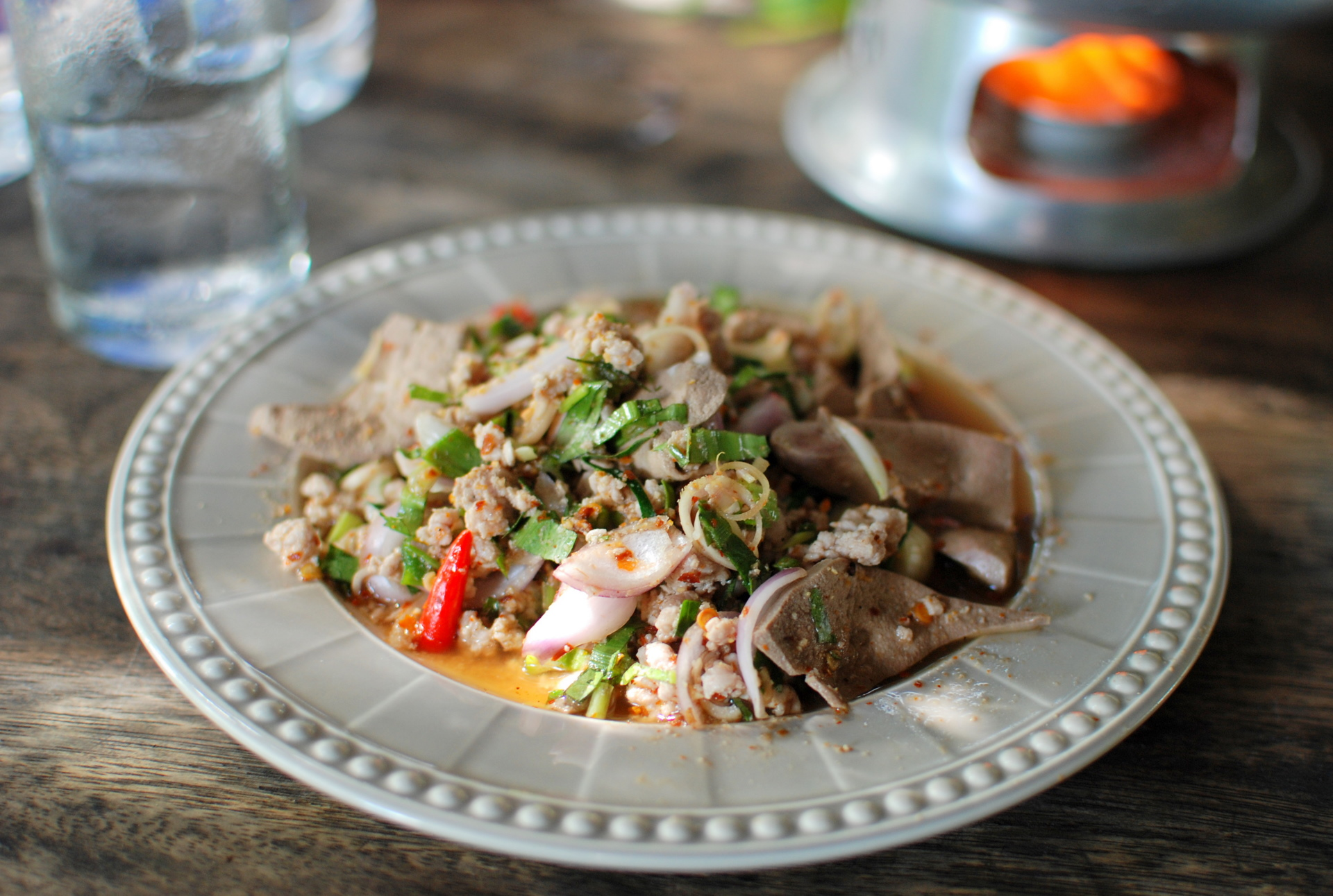 A simple Lap mu (Thai script: ลาบหมู) at a small eatery at Chiang Mai's Huai Kaeo waterfall. Lap mu is a meat salad of minced pork (here with some additional pork liver for taste), ground dried chillies, fresh bird's eye chillies, ground black-roasted glutinous rice, lime juice, fish sauce, shallots, and fresh herbs (here: pak chi farang (culantro, although mint is more common).